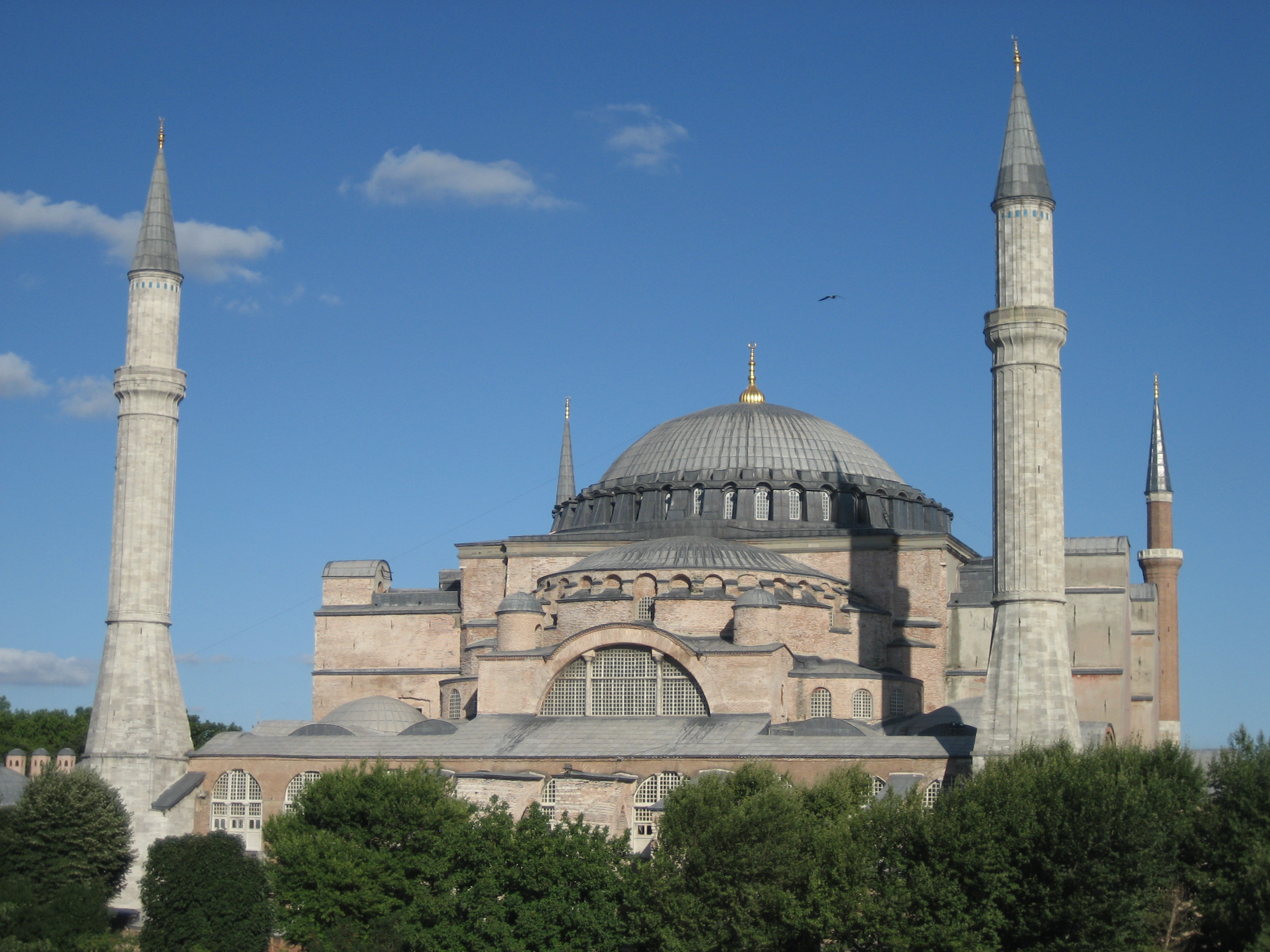 Hagia Sophia in Istanbul. Seen from north, from the terrace of the AND Hotel